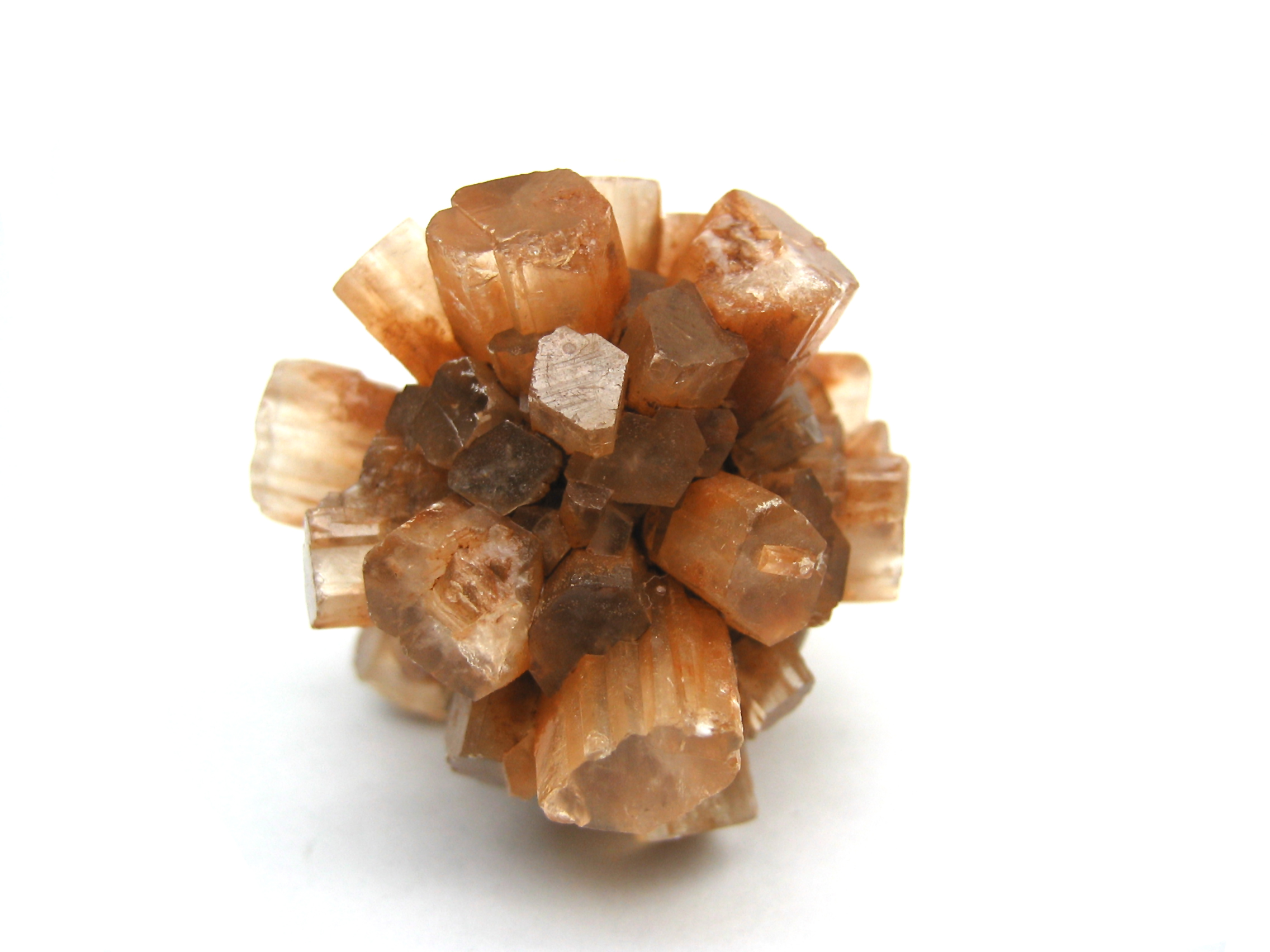 Macro of an Aragonite about 1 1/2 inches (4 cm) in size.